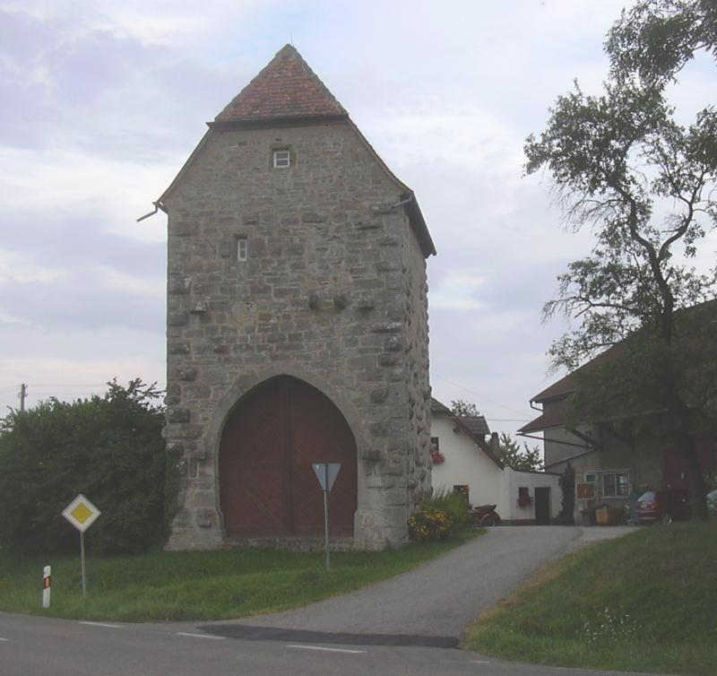 Lichteler Landturm (an old watchtower) near Creglingen, Germany